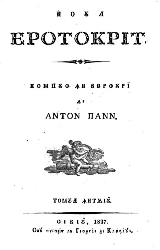 Cover of Noul Erotocrit, published by Anton Pann TranscriptionTransliterationNОꙊΛ ЕРОТОКРІТ КОМПꙊС ꙞN ВЕРСꙊРĬ дe АNТОN ПАNN. ТОМꙊΛ ꙞNТѪІꙊ̆. СІБІꙊ̆, 1837. СаȢ тѵпъріт ʌа Гᴇoргіᴇ дᴇ КʌoӡіȢс.NOUL EROTOCRIT COMPUS ÎN VERSURĬ DE ANTON PANN. TOMUL ÎNTÂIŬ. SIBIŬ, 1837. Sau tipărit la Gheorghie de Clozius.